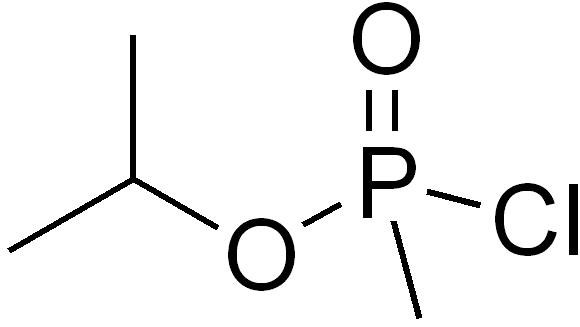 chemical structure of chlorosarin